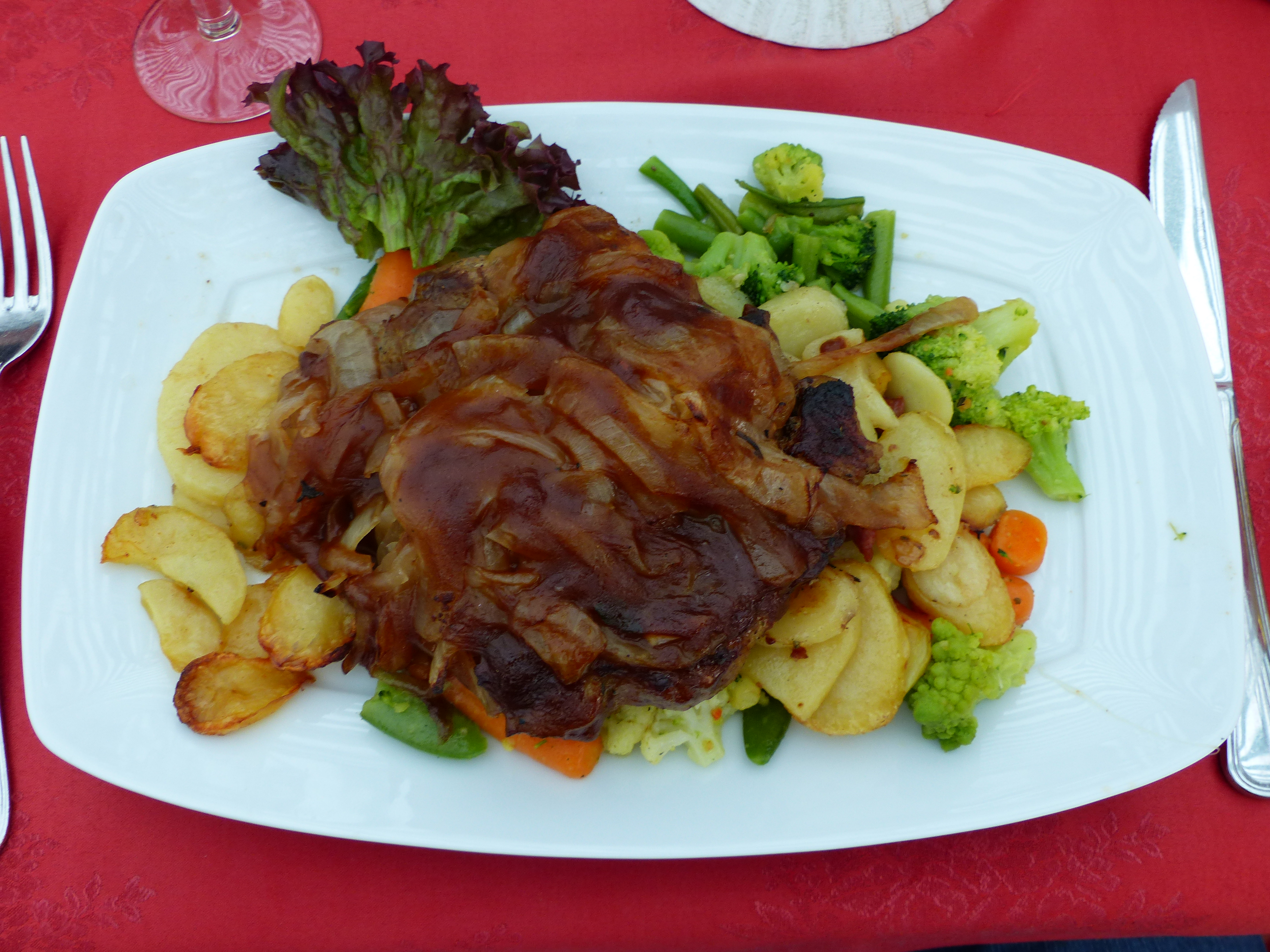 WLM-Fototour Erfurt 2014 Dieses Foto wurde im Rahmen der WLM-Fototour 2014 in Erfurt erstellt, die vom 29. bis 31. August 2014 zum Auftakt des Wettbewerbs Wiki Loves Monuments 2014 statt fand. The making of this document was supported by the Community-Budget of Wikimedia Germany.